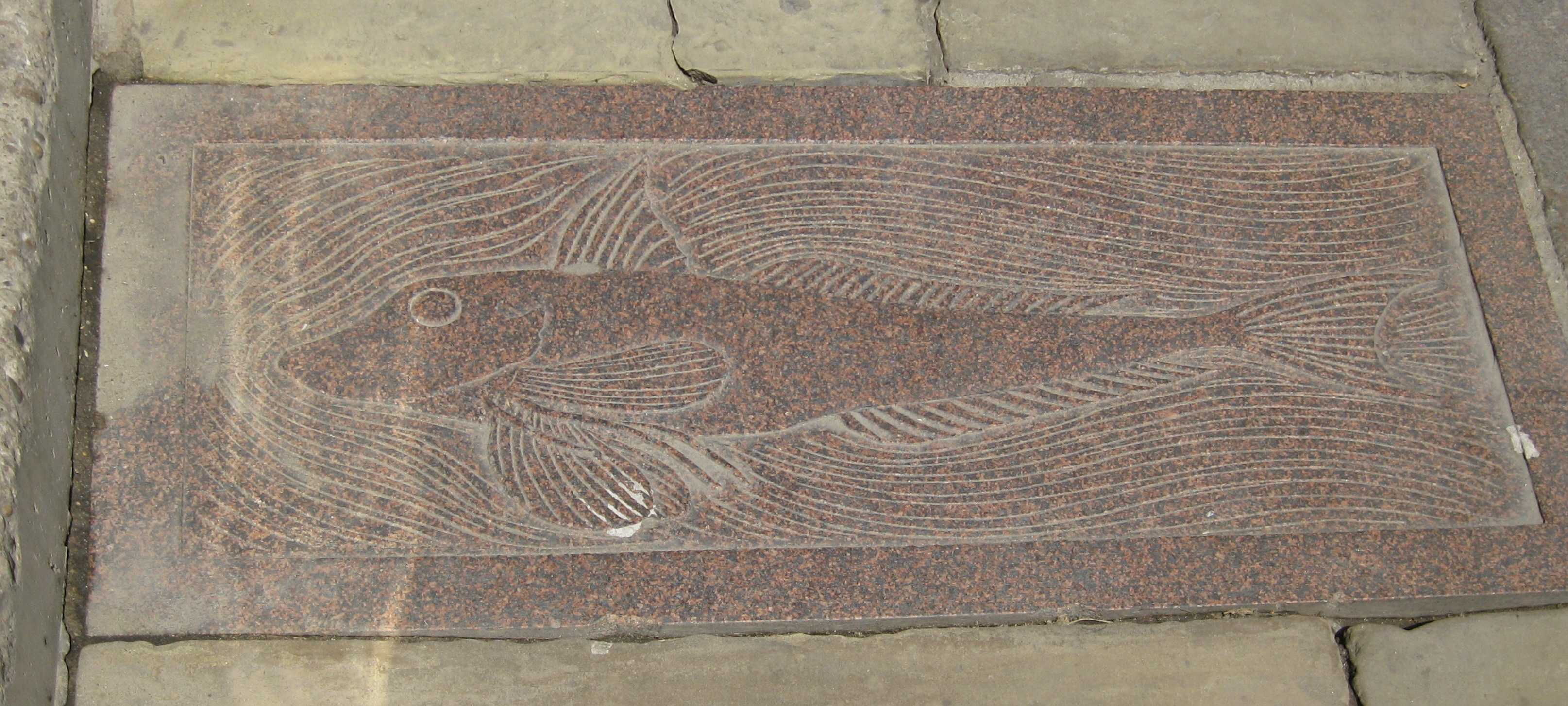 Fish on the pavement in Lowgate, Hull. Part of the Seven Seas Fish Trail.